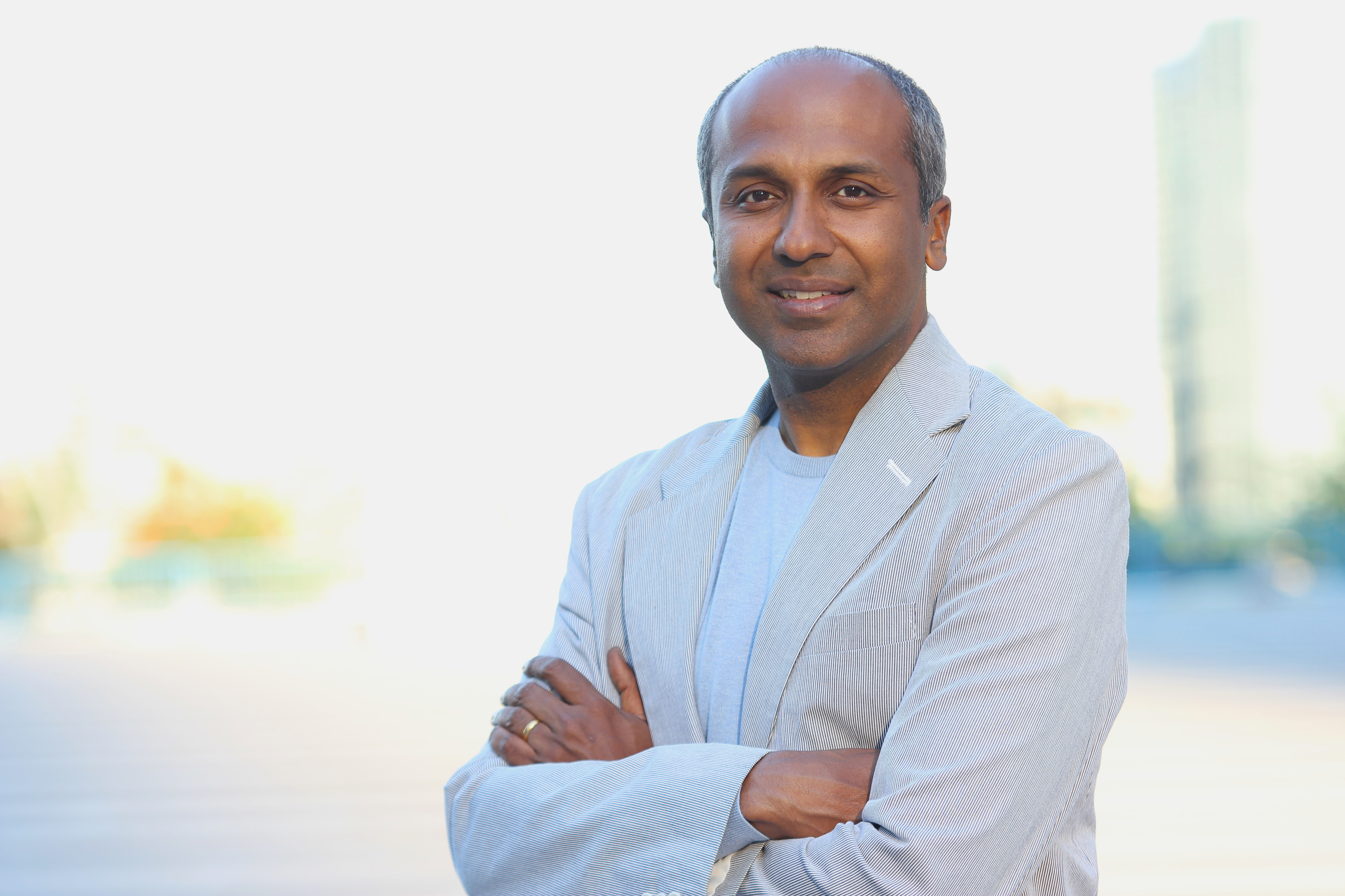 Sree Sreenivasan in New York, July 2016. Photo by Lia Chang